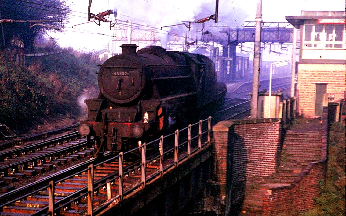 A freight train from the Crewe line crosses the Trent and Mersey canal and heads towards Stoke-on-Trent; mid 1960s